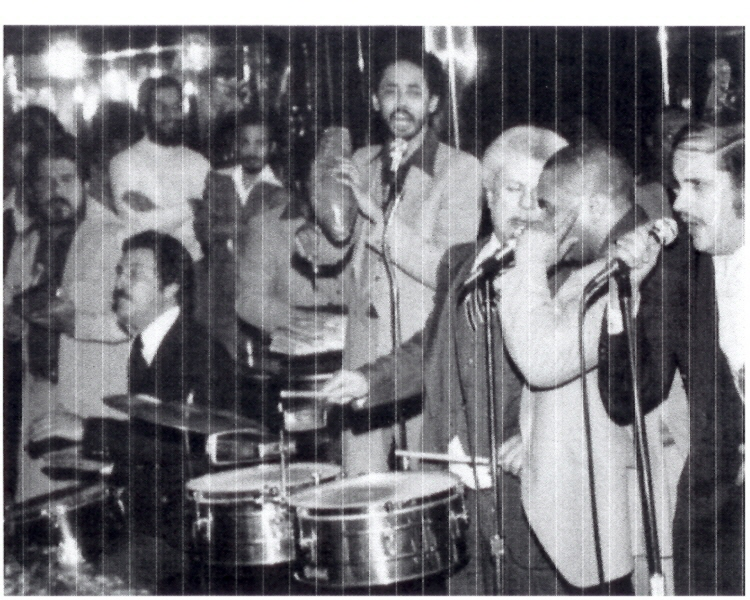 Roger Dawson with Tito Puente at the Corso, New York City 1976 -from left Roger Dawson, congas, Jose Madera, guiro & coro, Tito Puente, timbales & coro, Frankie Figueroa, coro, Frankie Dante, lead vocal